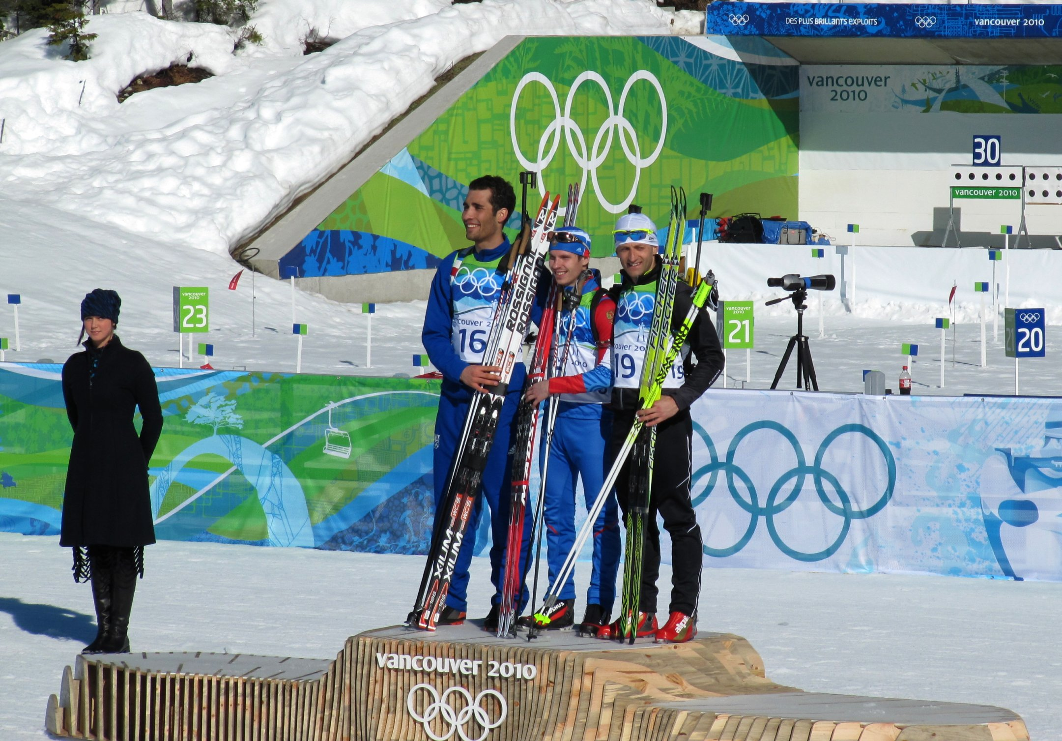 Biathlon men's 15 km mass start medalists at 2010 Winter Olympics.